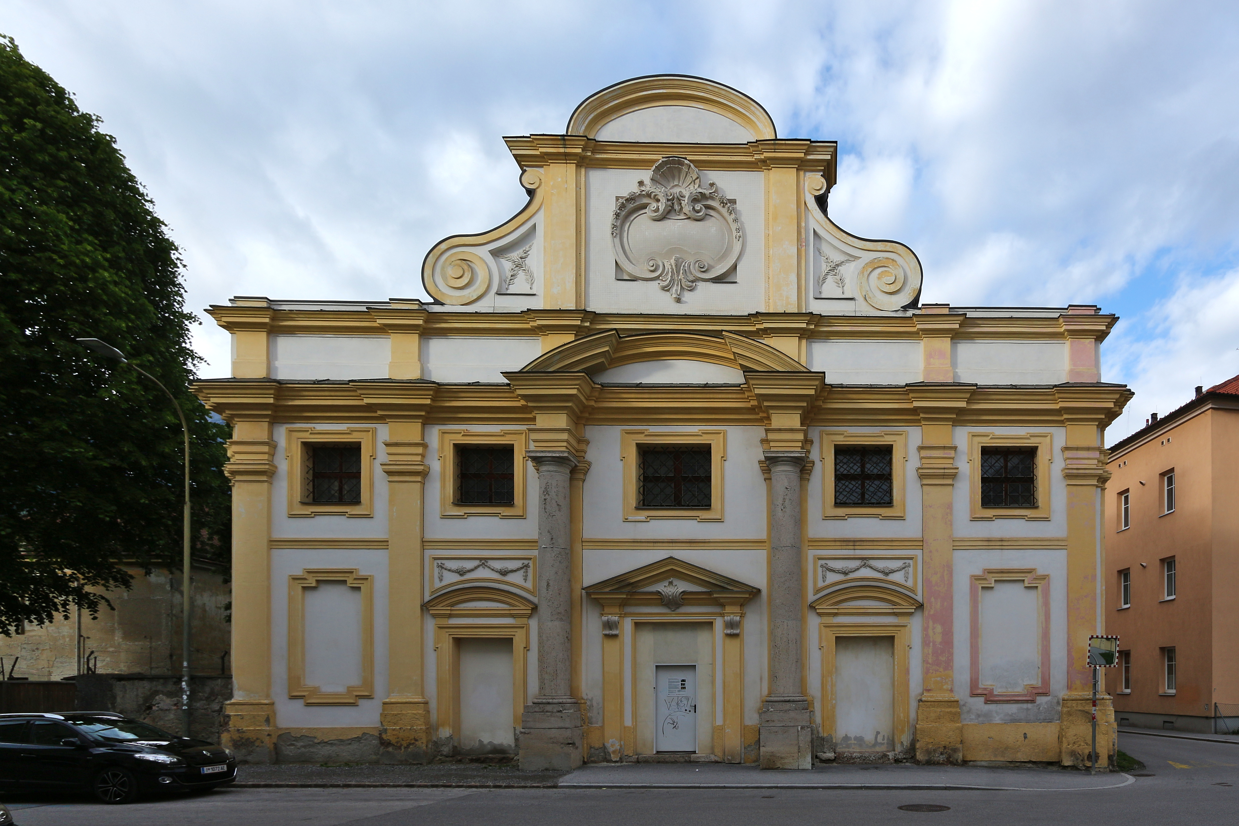 Sieben-Kapellen-Kirche This media shows the remarkable cultural object in the Austrian state of Tyrol listed by the Tyrolean Art Cadastre with the ID 116076. (on tirisMaps, pdf, more images on Commons, Wikidata)